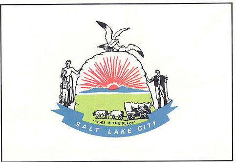 Flag of Salt Lake City, Utah (1969 to 2006)